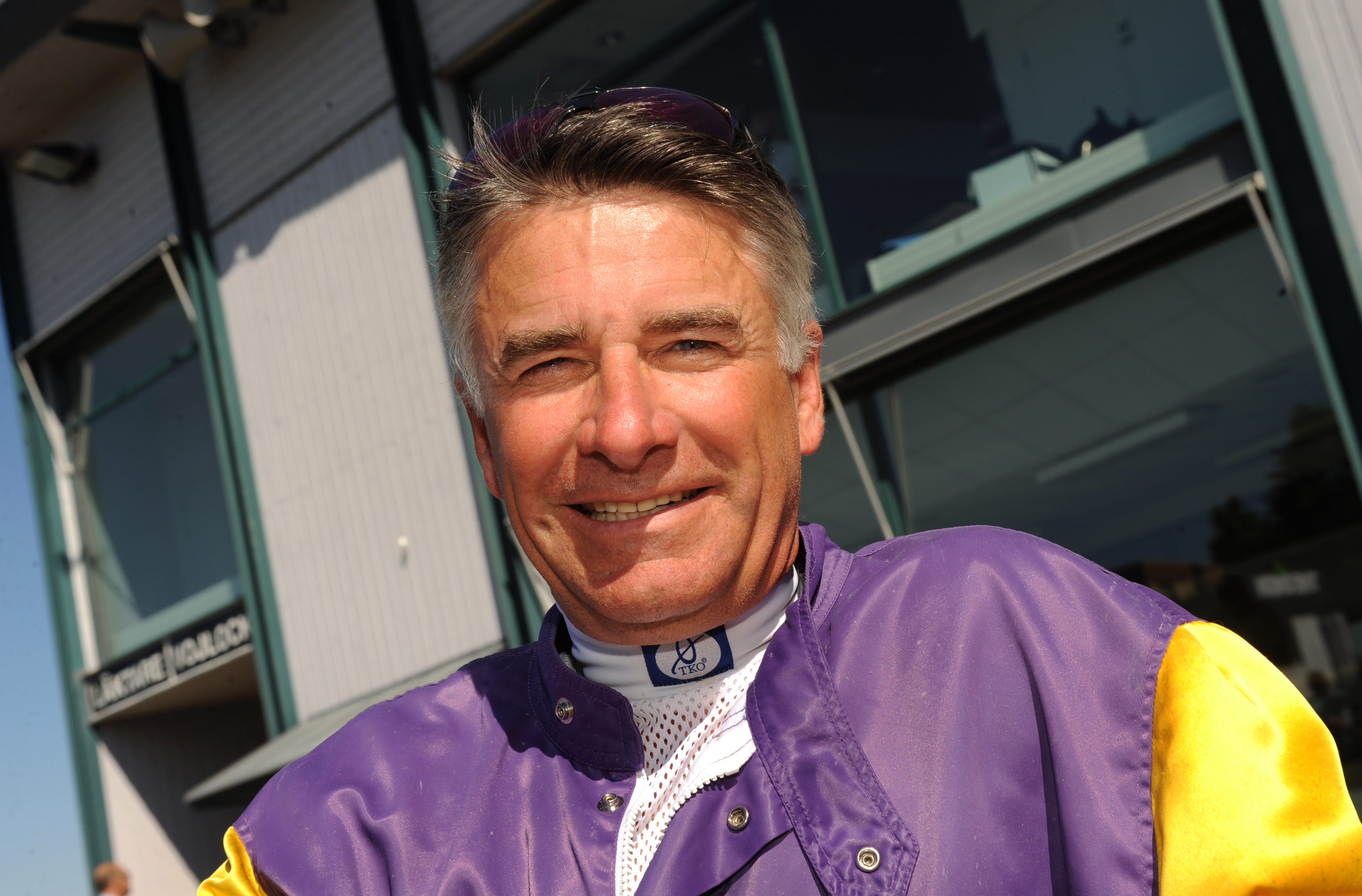 Pierre Levesque 2009-05-31 at Solvalla, Sweden.